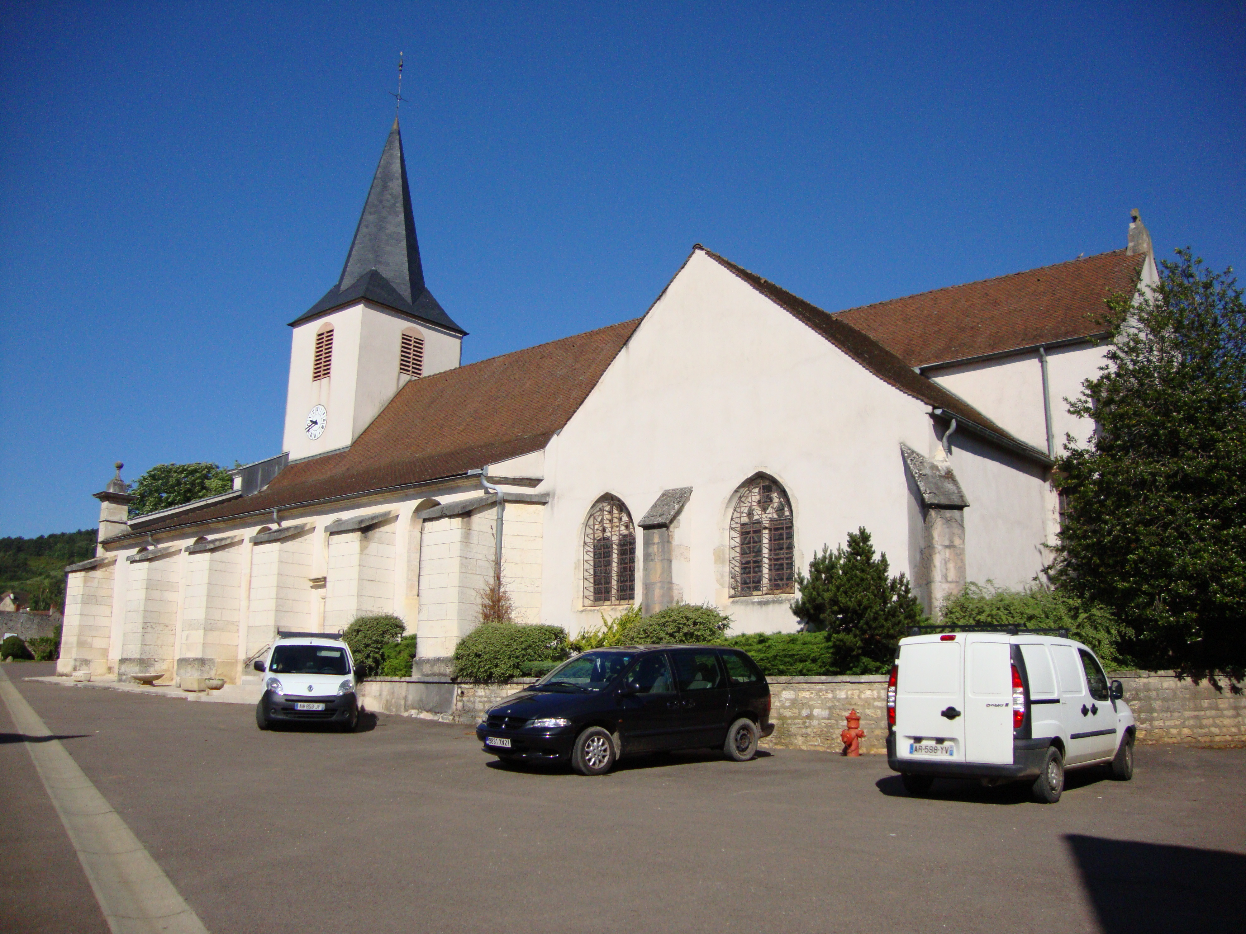 Chassagne-Montrachet(Côte-d'Or, Fr) church